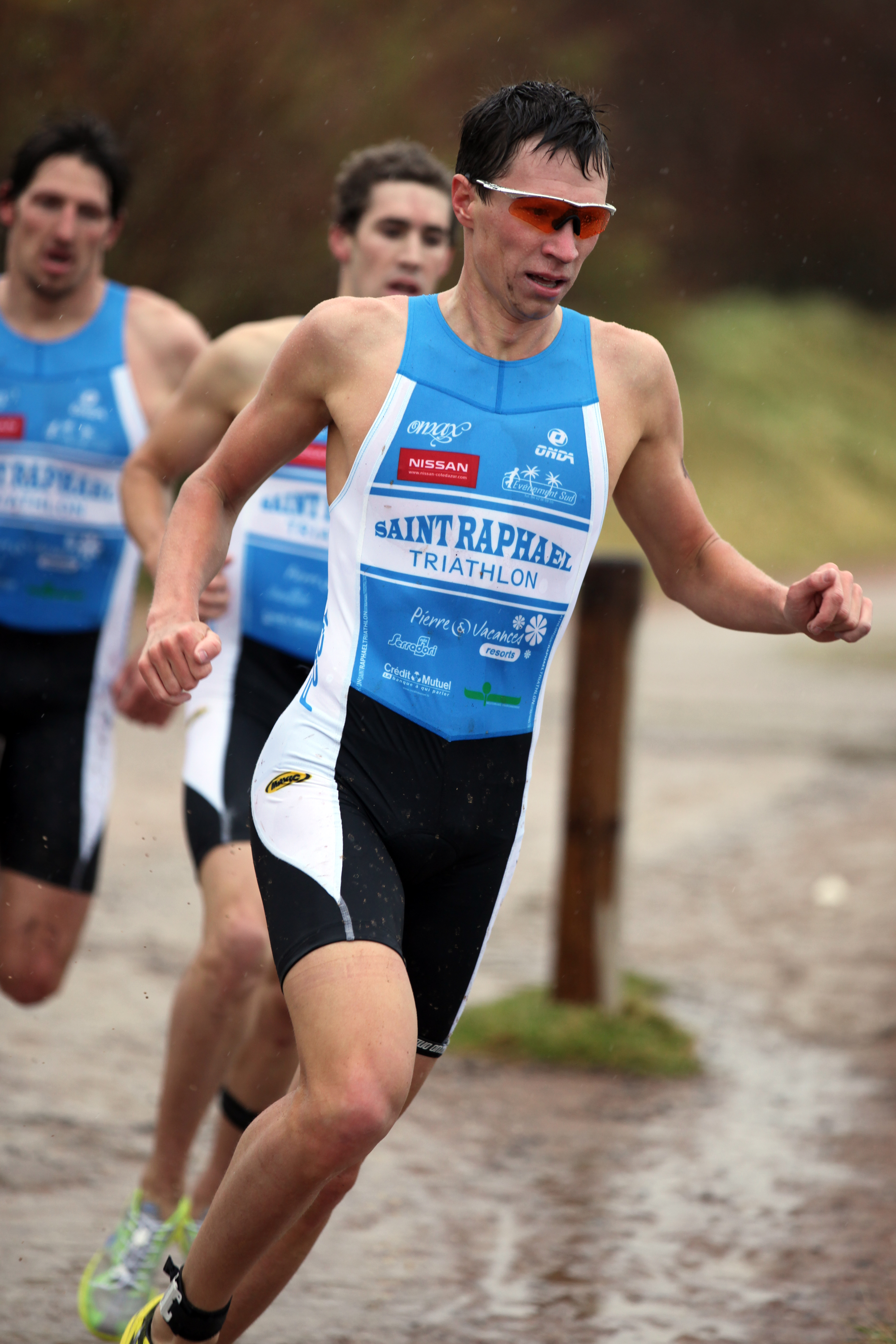 Dmitry Polyanski (Polyanskiy), Дмитрий Андреевич Полянский, at the opening triathlon of the French Grand Prix series in les Sables d'Olonne, 2012.